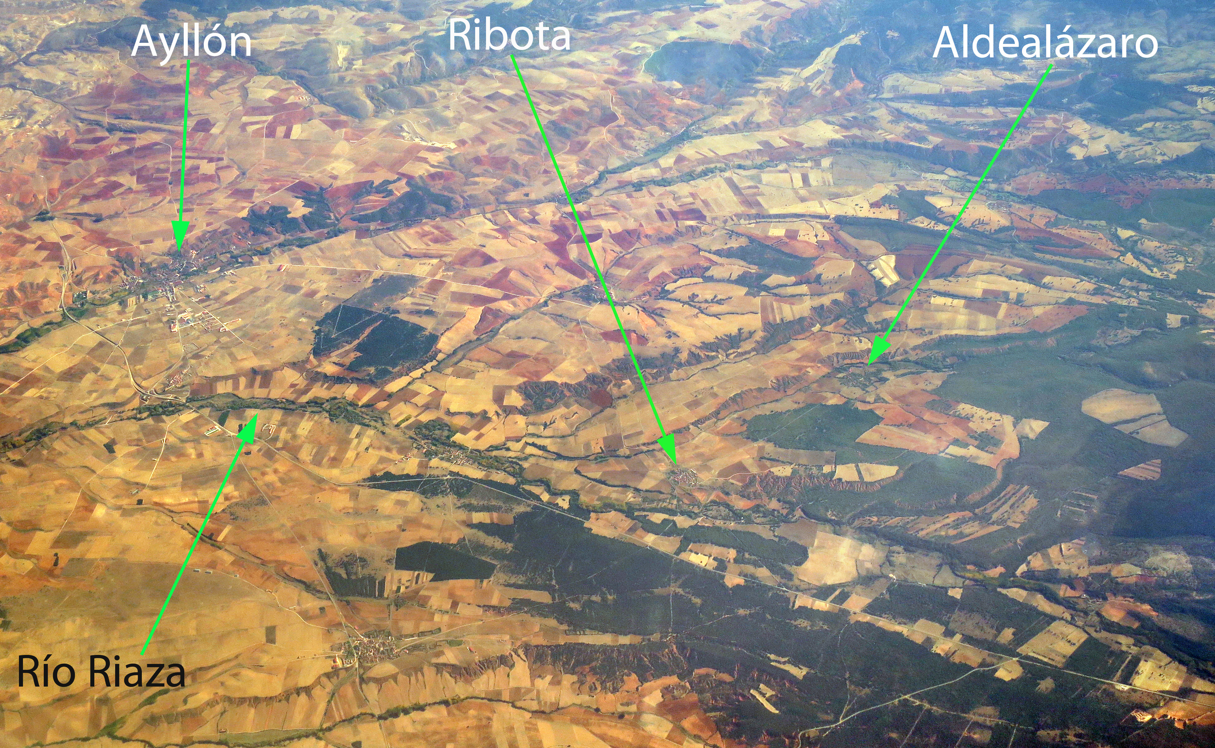 An aerial view of part of the province of Segovia in Spain, including the villages of Ribota and Aldealázaro.